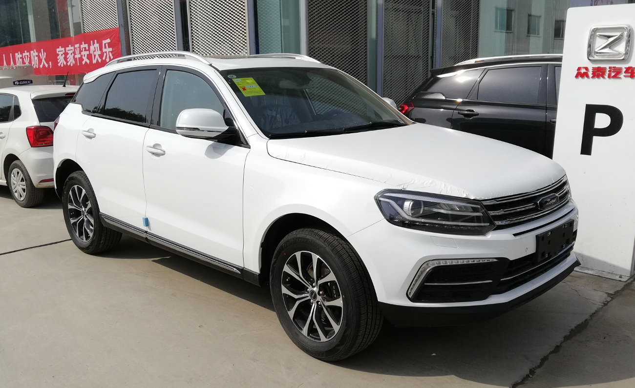 Zotye T600 Coupe photographed in Zhengzhou, Henan province, China.